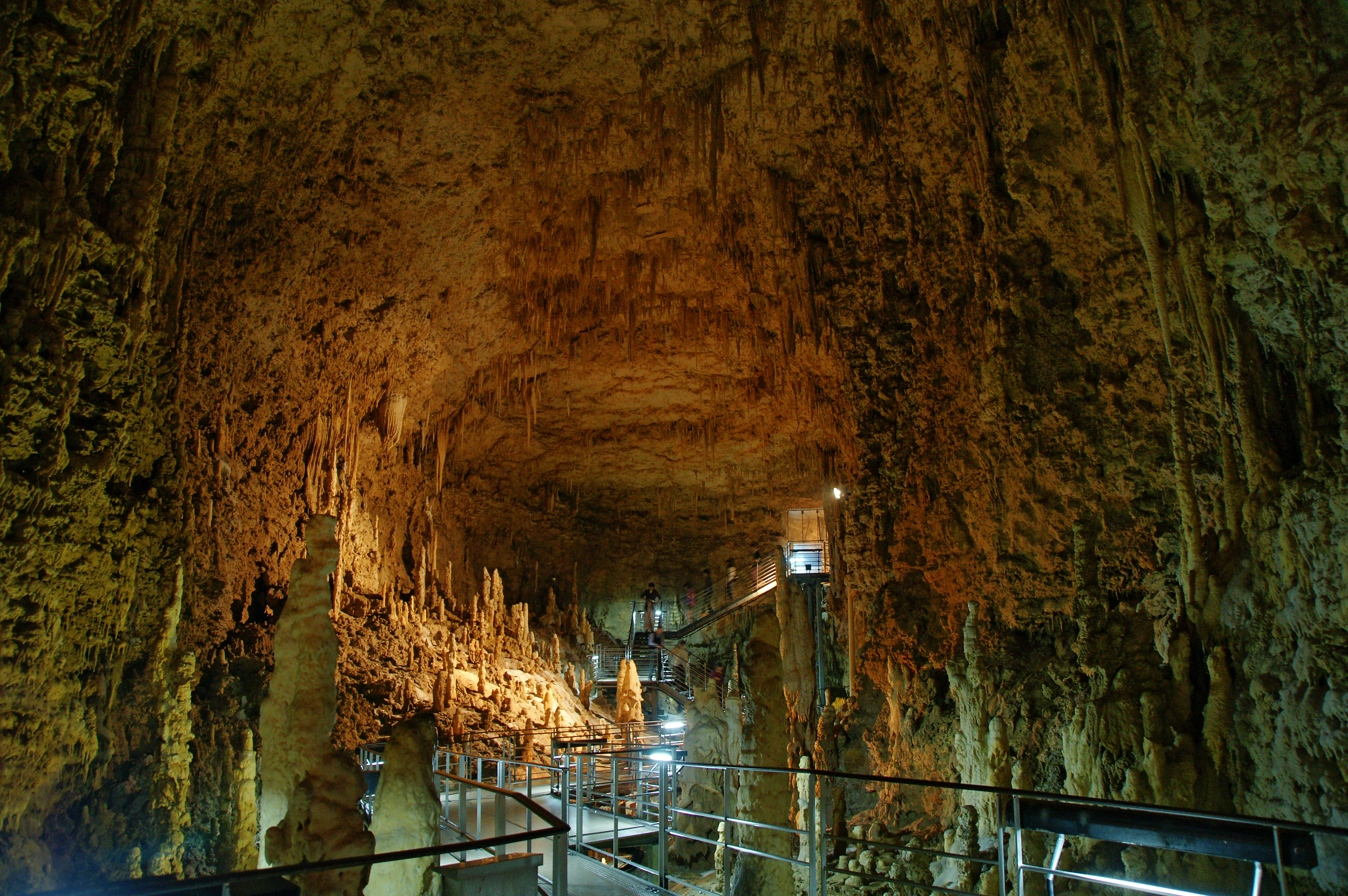 Gyokusendo in Nanjo, Okinawa prefecture, Japan.